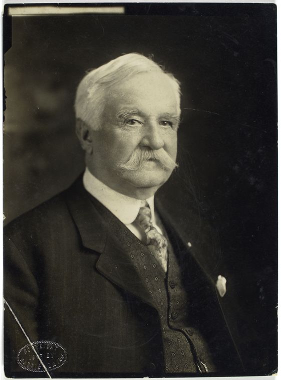 Senator Morgan G. Bulkeley, 1908